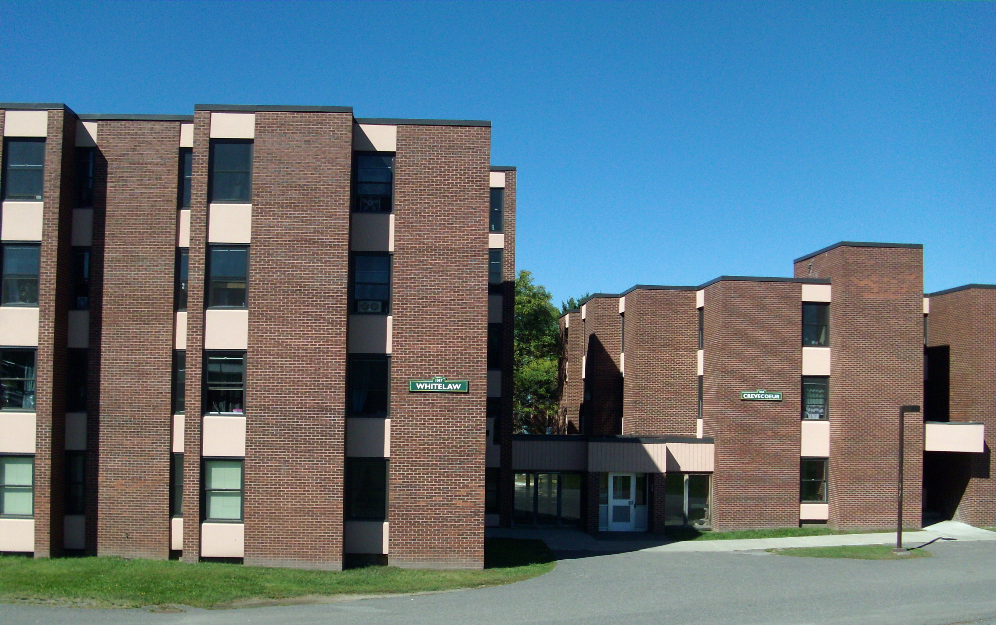 Lyndon State College Residence Halls: Whitelaw (left) and Crevecour (right)